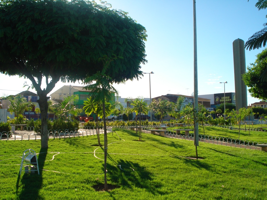 Monsignor Caminha Square (Praça Monsenhor Caminha), in the downtown of Pau dos Ferros.